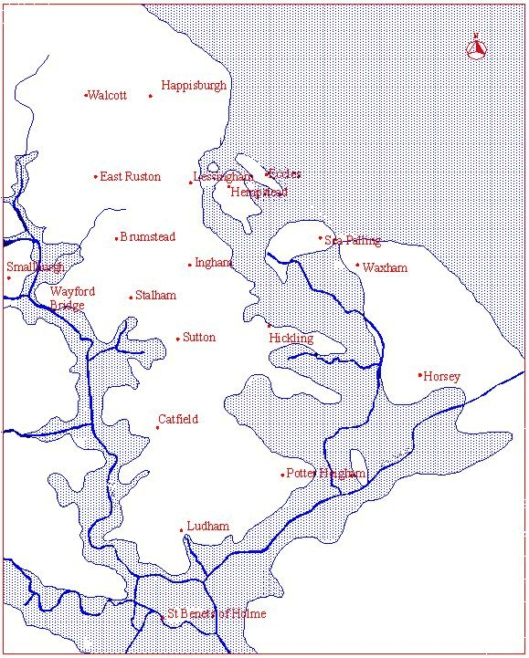 The coastline and water transport routes in the Happing Hundred, Norfolk, UK during the Roman era.